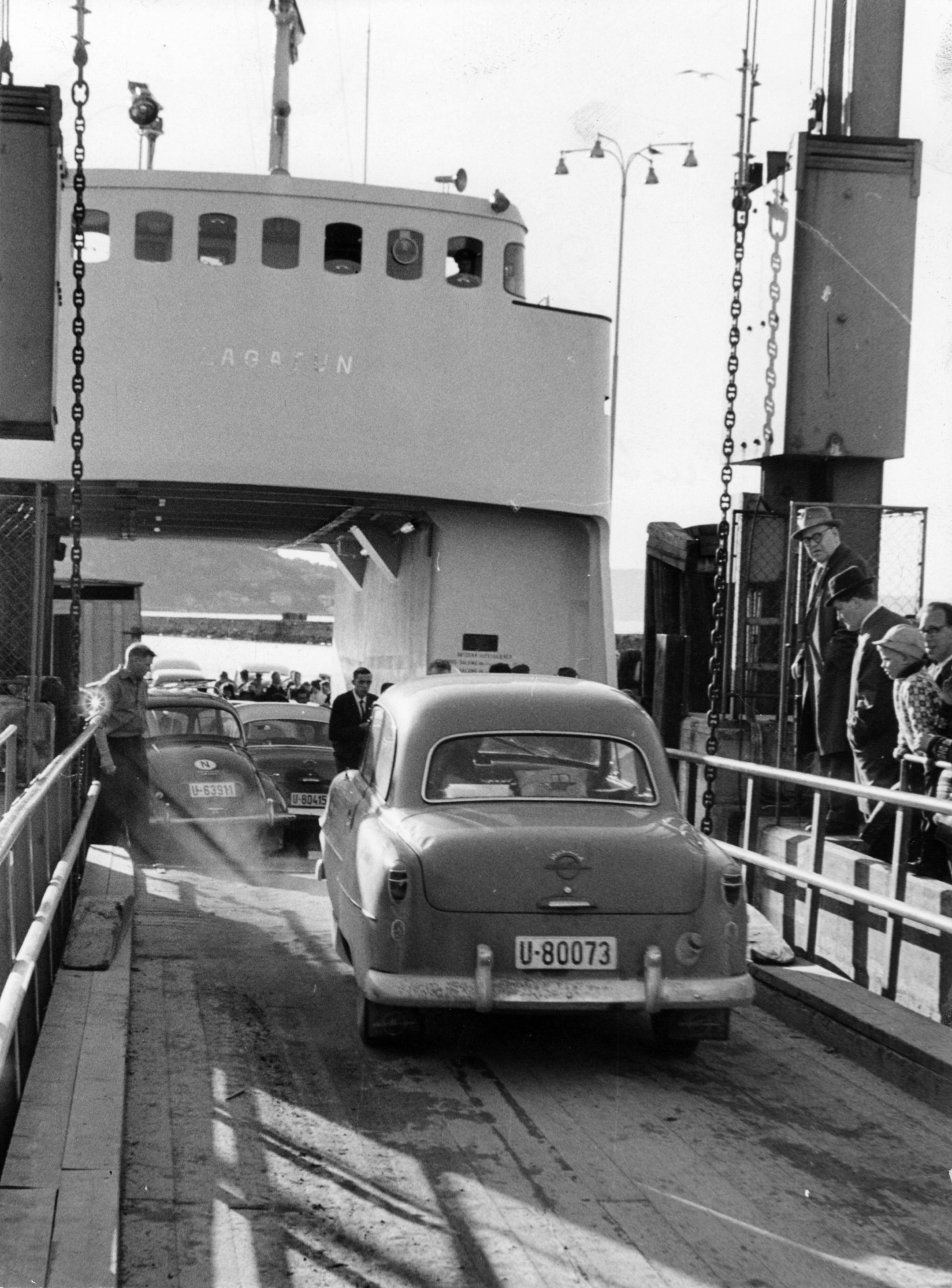 Format: Fotopositiv Dato / Date: Mai 1964 Fotograf / Photographer: Ukjent Sted / Place: Trondheim Wikipedia: Ferje Eier / Owner Institution: Trondheim byarkiv, The Municipal Archives of Trondheim Arkivreferanse / Archive reference: Tor.H42.B49.F3470 Comment: Car with ca. 1955 Opel Rekord logo